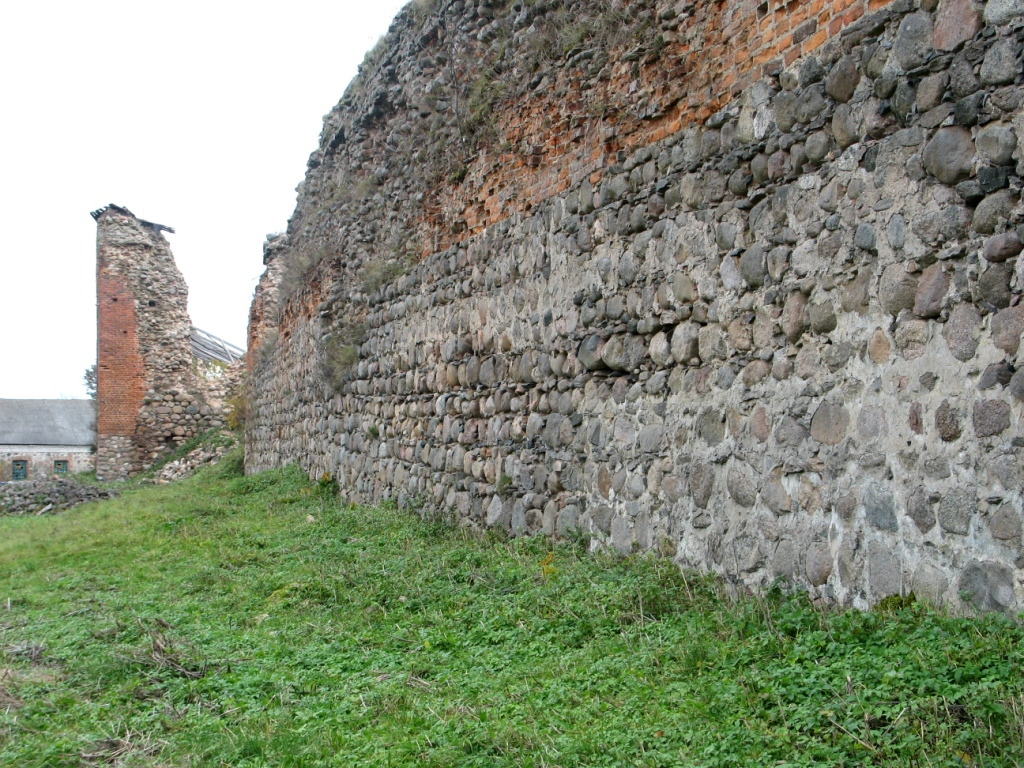 Castle of Kreva, Belarus